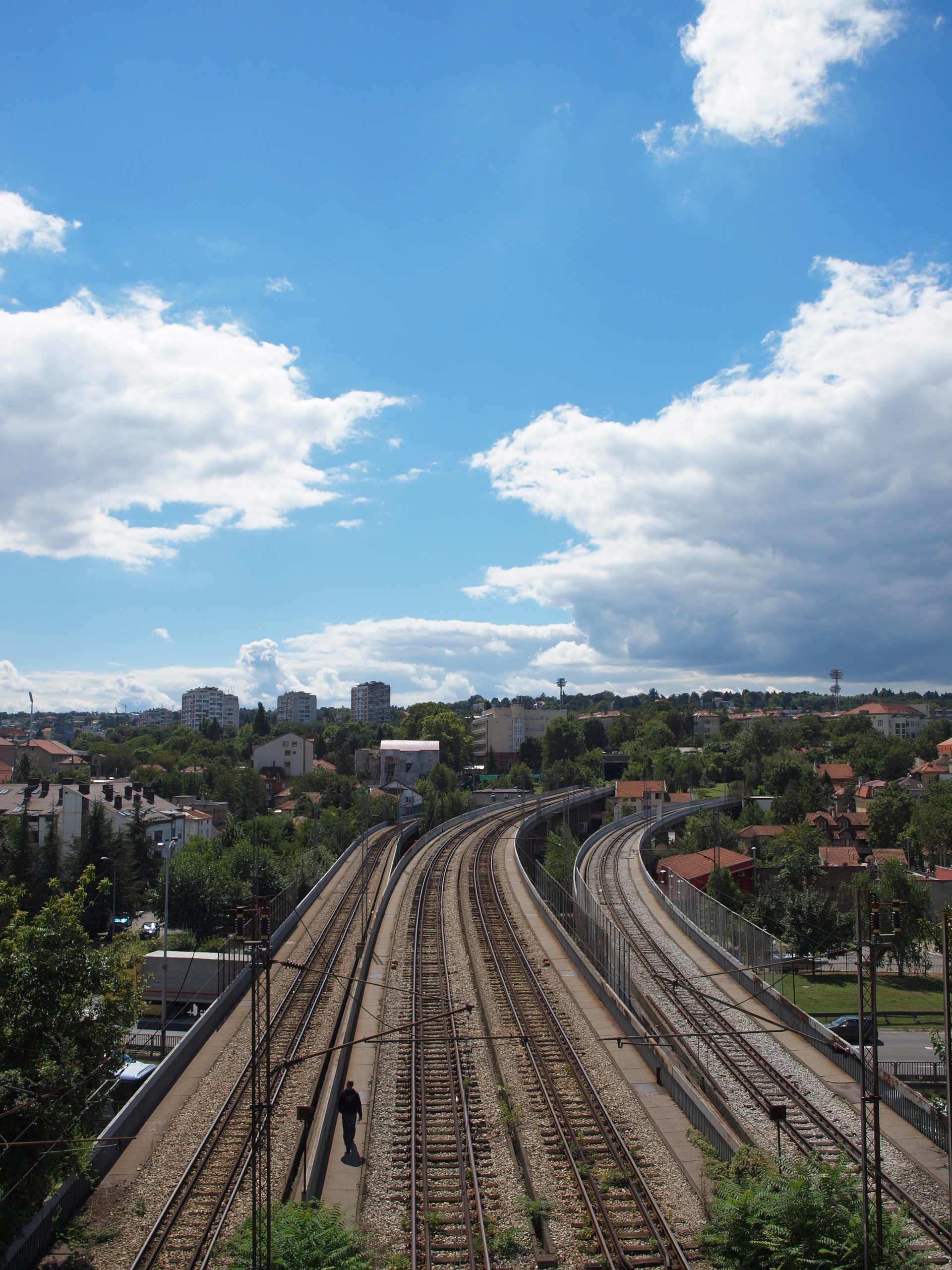 Railway infrastructure Belgrade